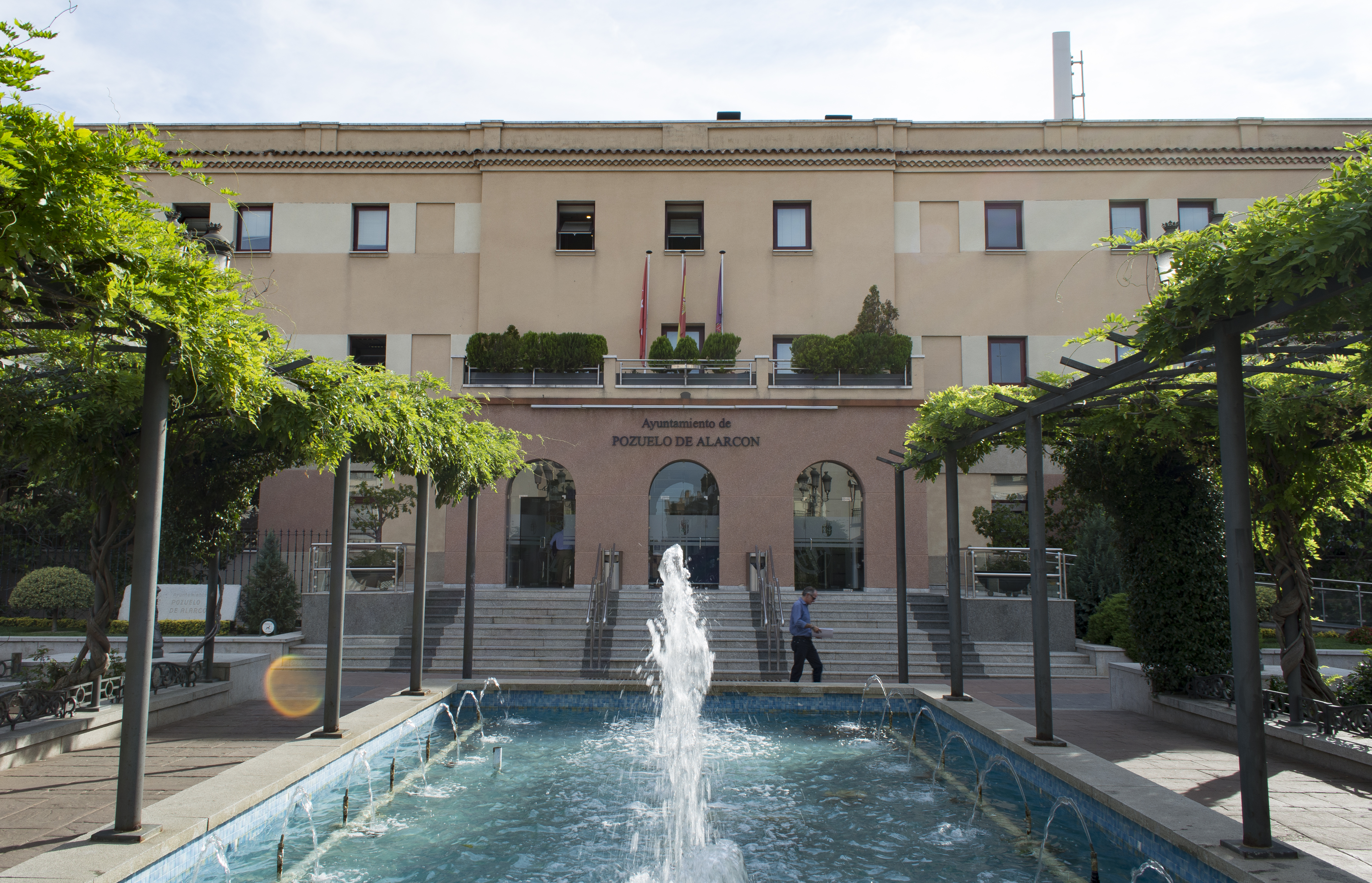 Pozuelo de Alarcón's City Council, located in the Plaza Mayor.